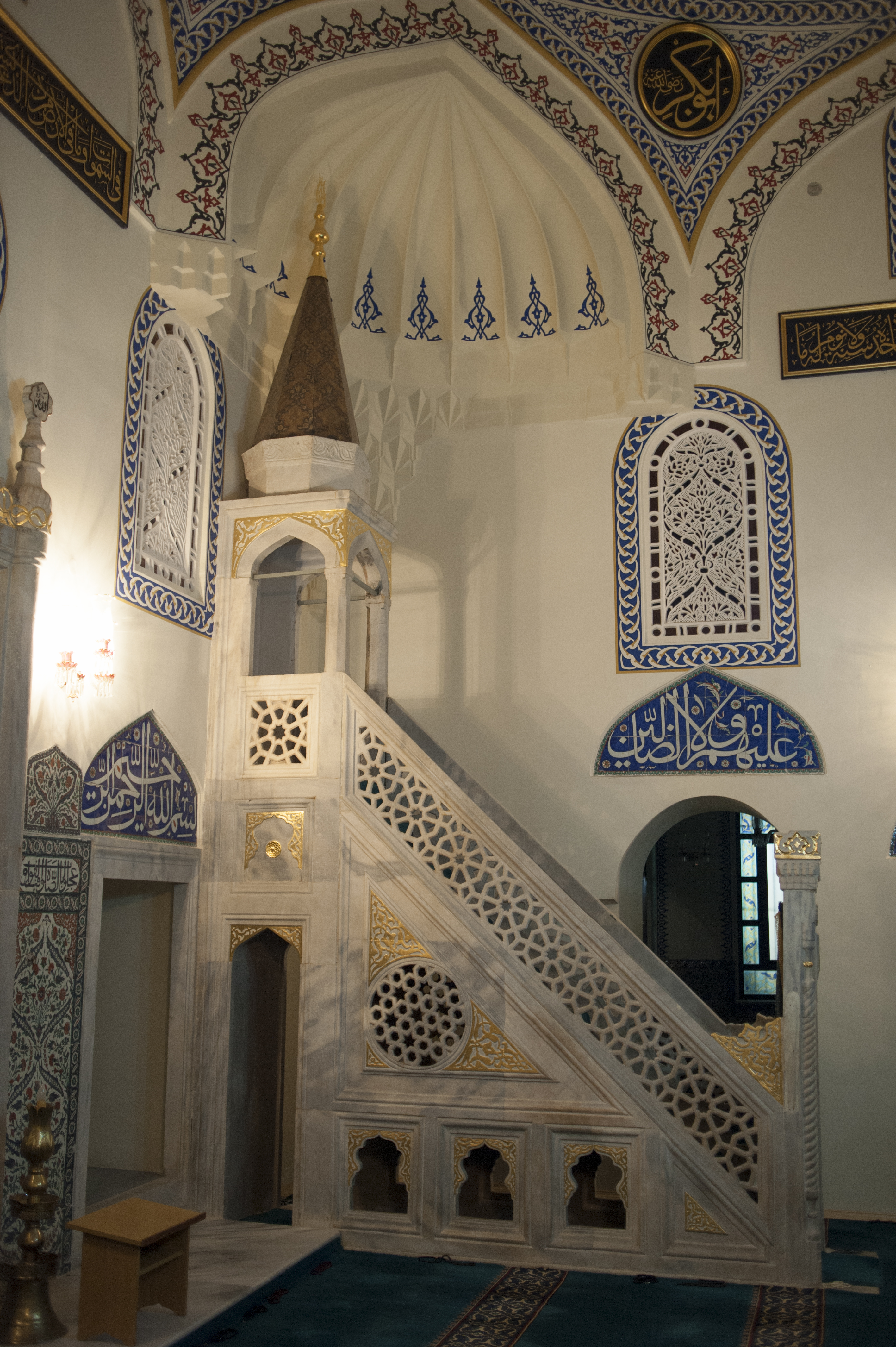 Minbar of Yeni Mosque, Komotini, West Thrace, Greece.